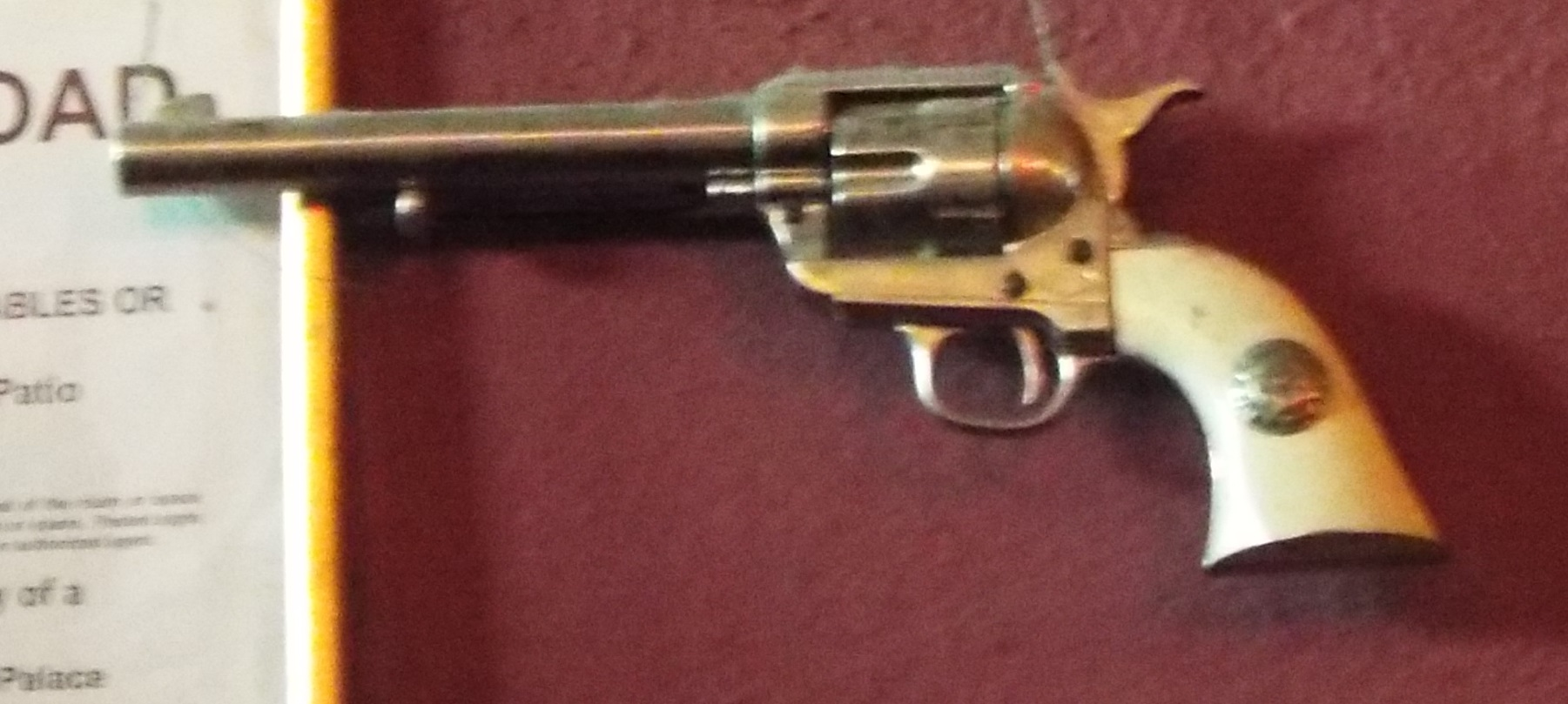 Palace Hotel-1901-Wyatt Earp's Colt 45 replica in Prescott, Az